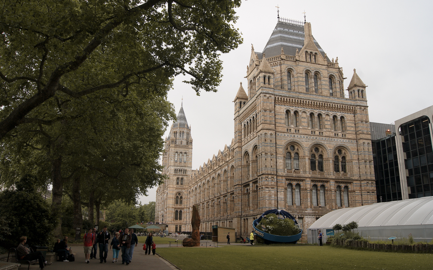 Natural History Museum, London